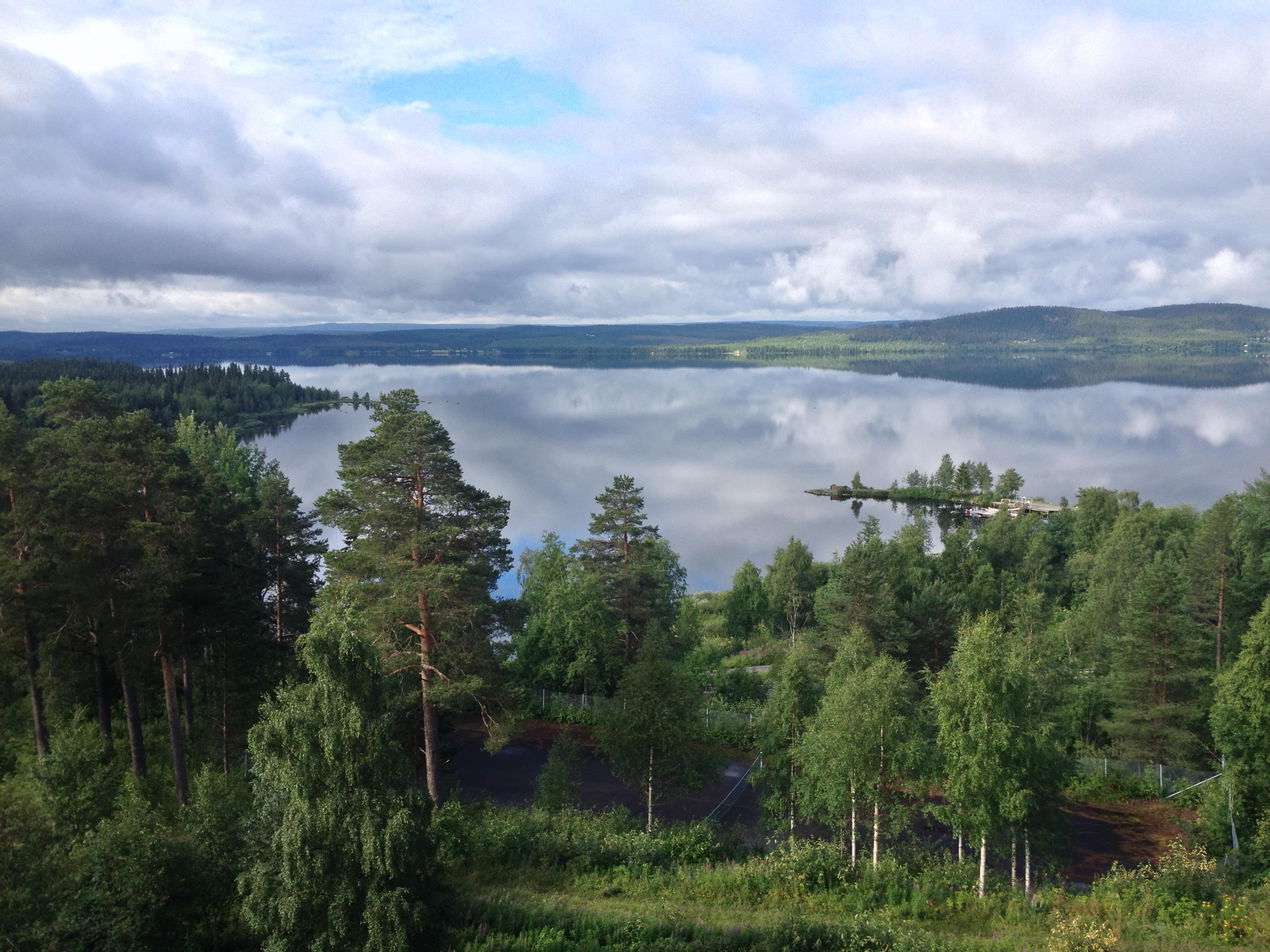 Looking across Volgsjön (Volg Lake) on a summer morning. View is from the patio dining area of Hotel Wilhelmina.